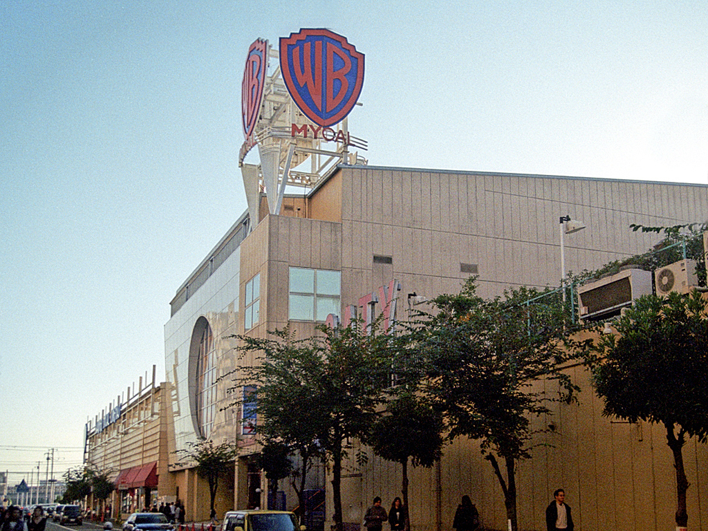 Multiplex Cinema "Warner Mycal Cinemas Ebina" in Japan.